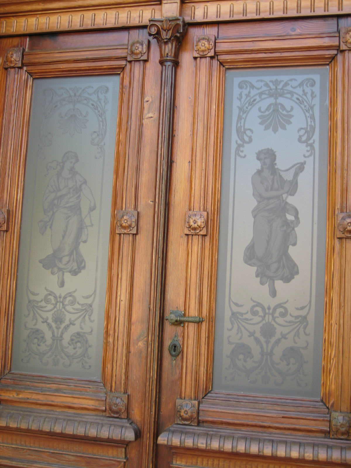 Slovenska filharmonija. A faithful copy of the original glass drawing at the doors.